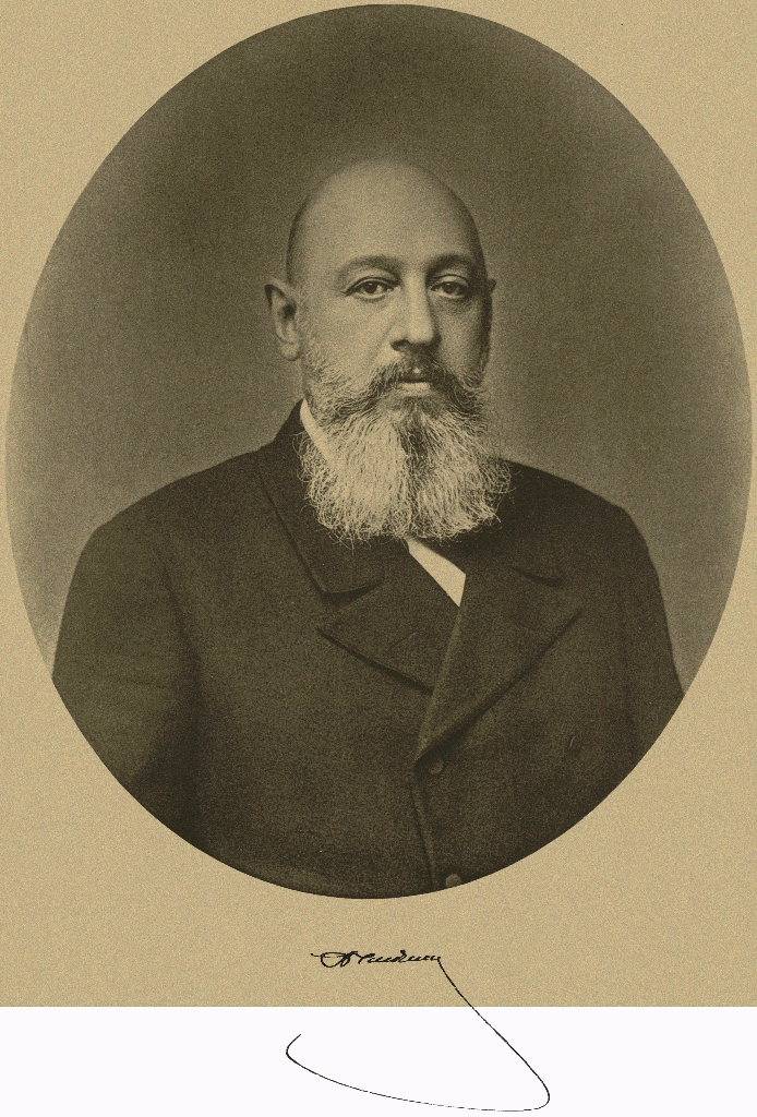 Sipiagin Dmitry (1853-1902) Ministr of Russia